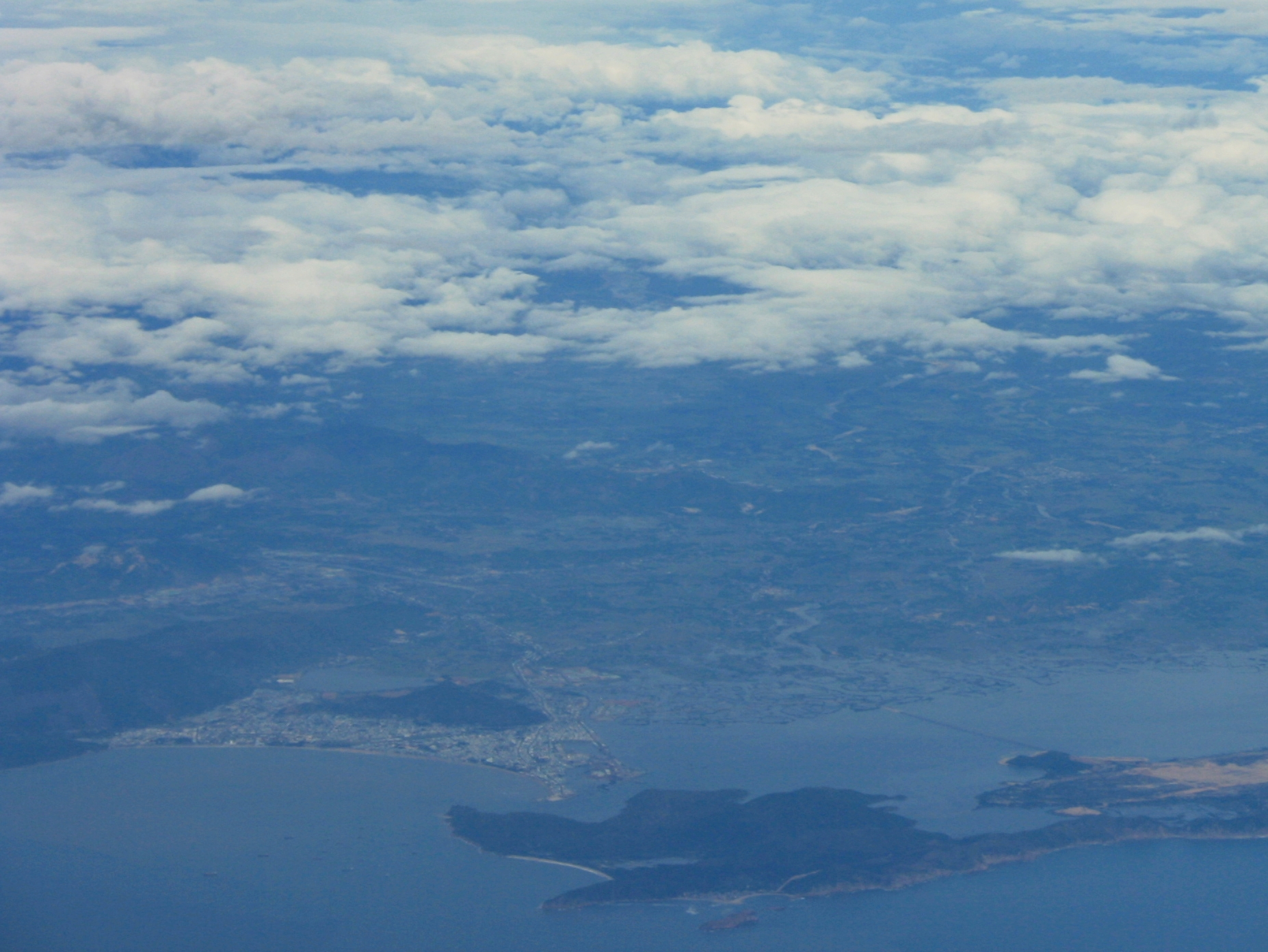 Shot them from the plane between HK and Singapore.